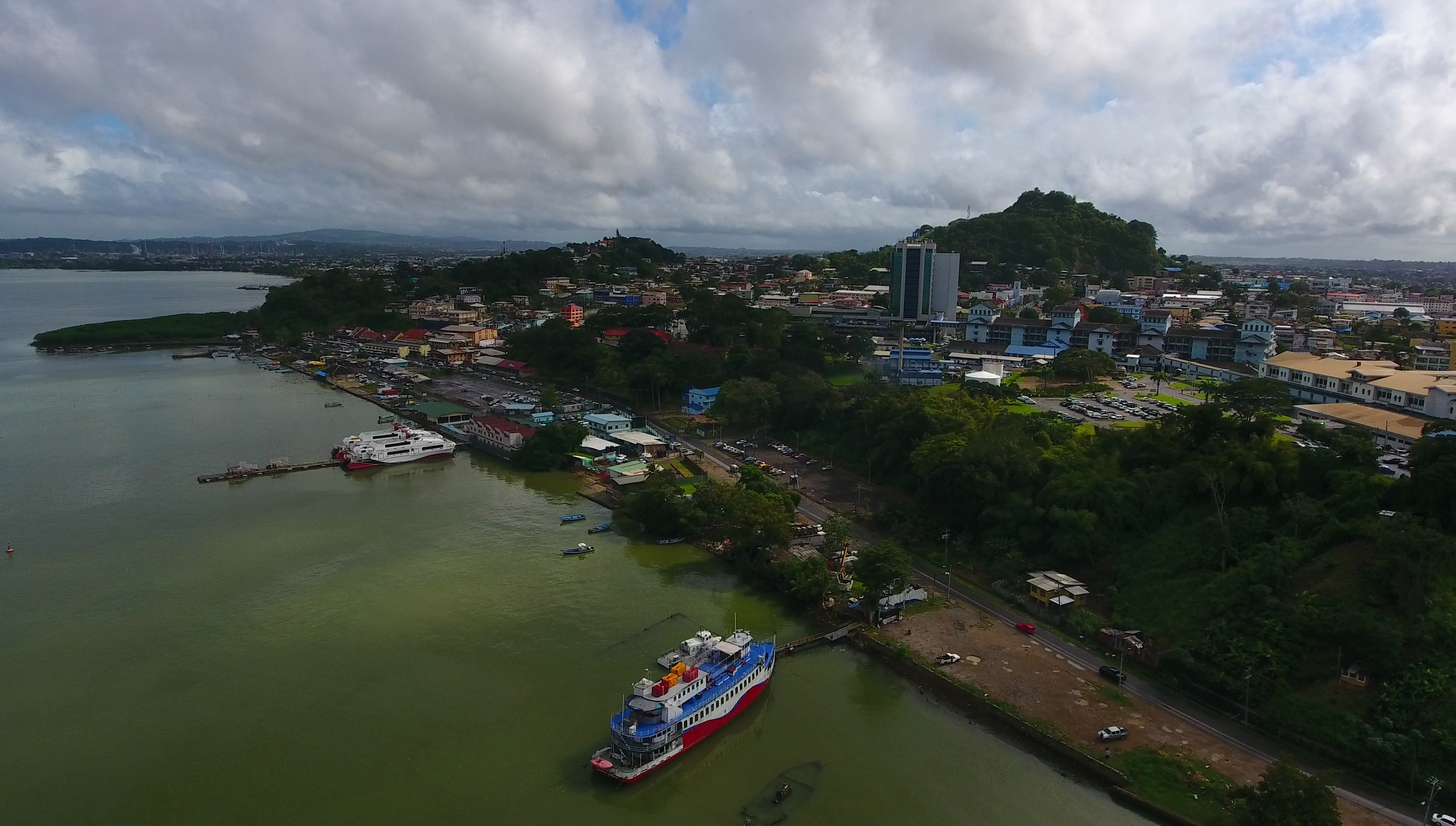 Habour area (King's Wharf), San Fernando, Trinidad and Tobago. Foreground: MS Southern Elegance, a party cruise boat. Centre: Two of the POS-SF water taxis. Centre right: SF General Hospital. Background: San Fernando Hill. Photo taken as part of the Southern Trinidad Aerial Photo Project, a small project sponsored by WMDE. Drone used: DJI Phantom 4. Snapshot taken from video footage via VLC.